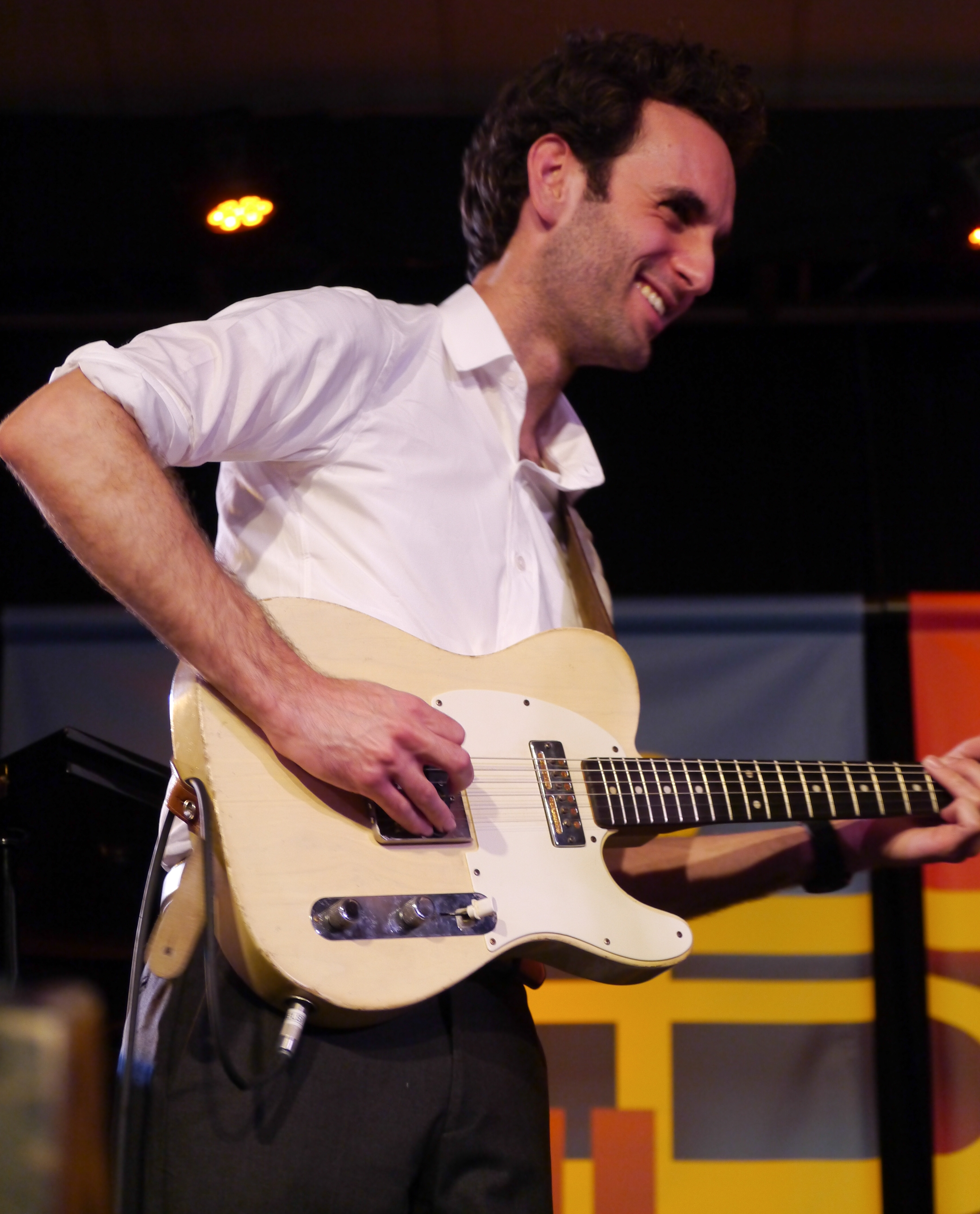 Julian Lage performs at the 2014 Monterey Jazz Festival.